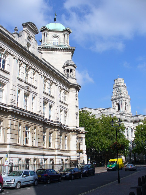 Park Building, University of Portsmouth Distinctive architecture on King Henry I Street in central Portsmouth. The distant tower is Portsmouth Guildhall.